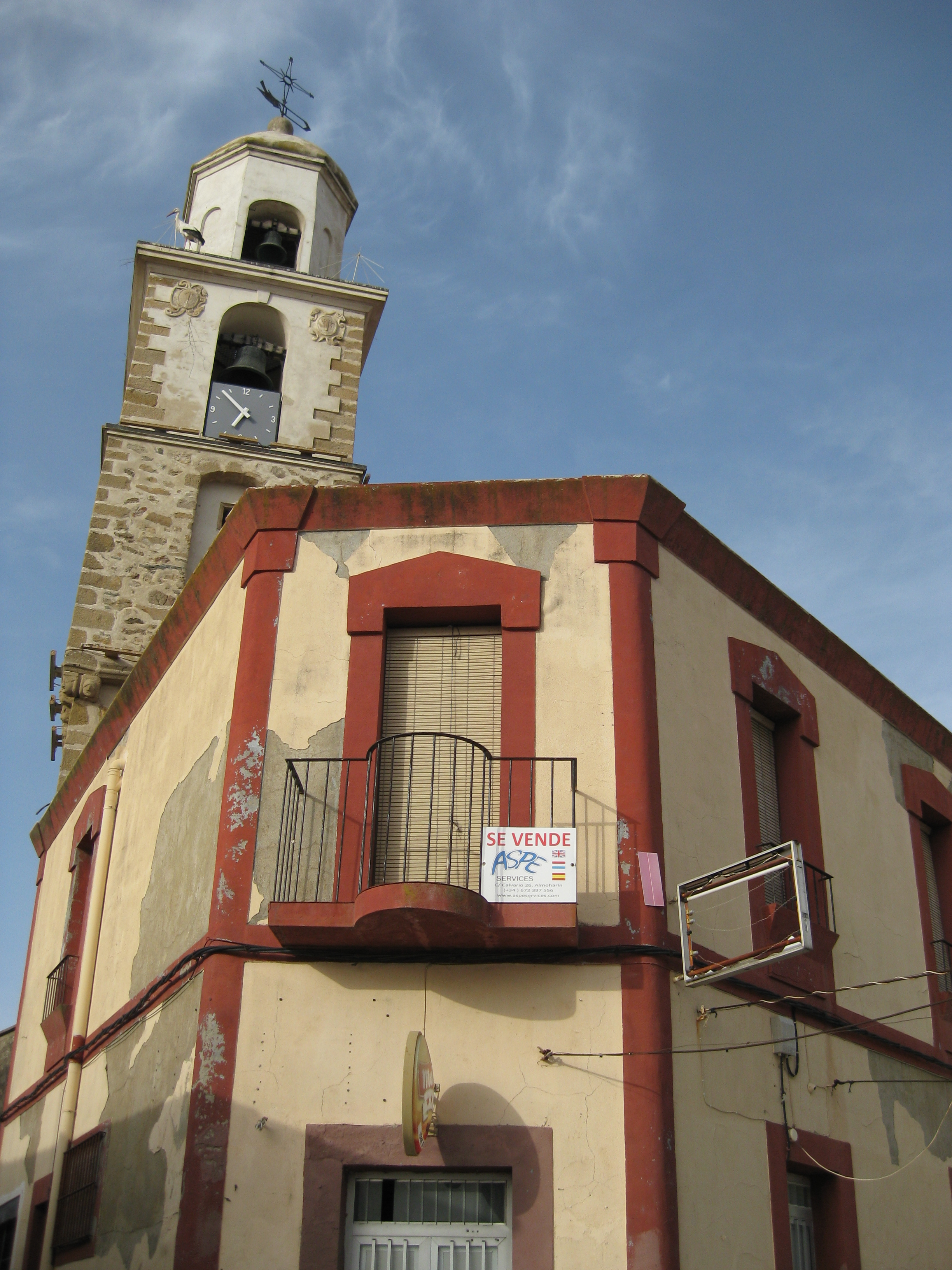 Almoharín